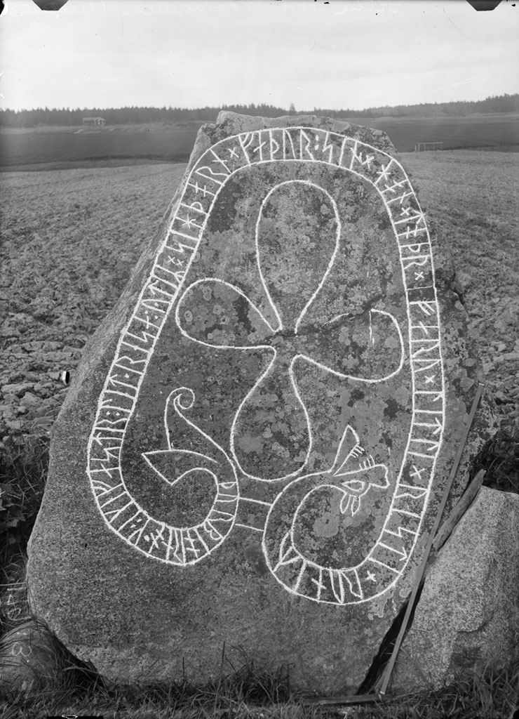 Rune stone (Vs 27) in Grällsta. The inscription says: "Torbjörn and Ingefast had (the stone) raised in memory of Sigtorn, their father. He died on a voyage. Litle carved the runes."